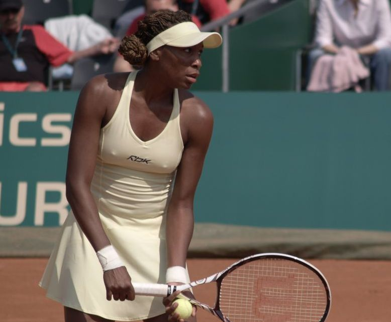 Venus Williams at the 2006 Warsaw Cup